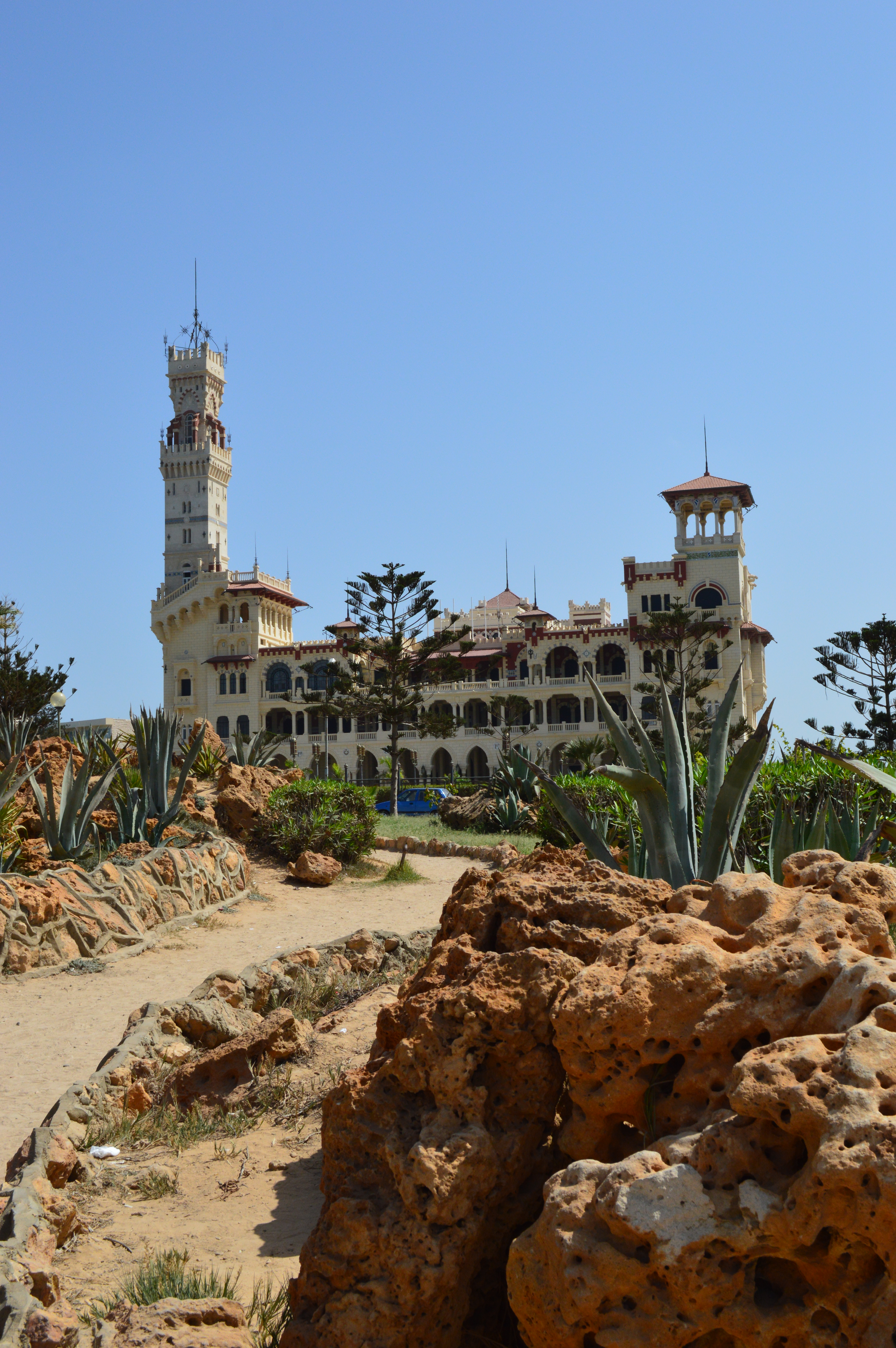 The view from the garden park -3